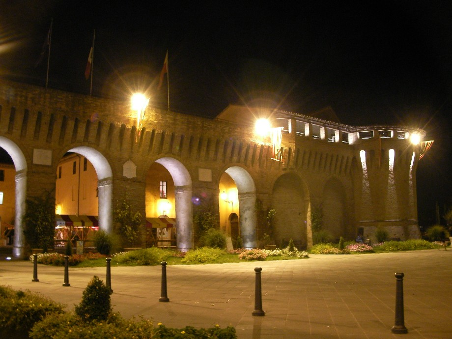 The castle of Forlimpopoli from the principal square